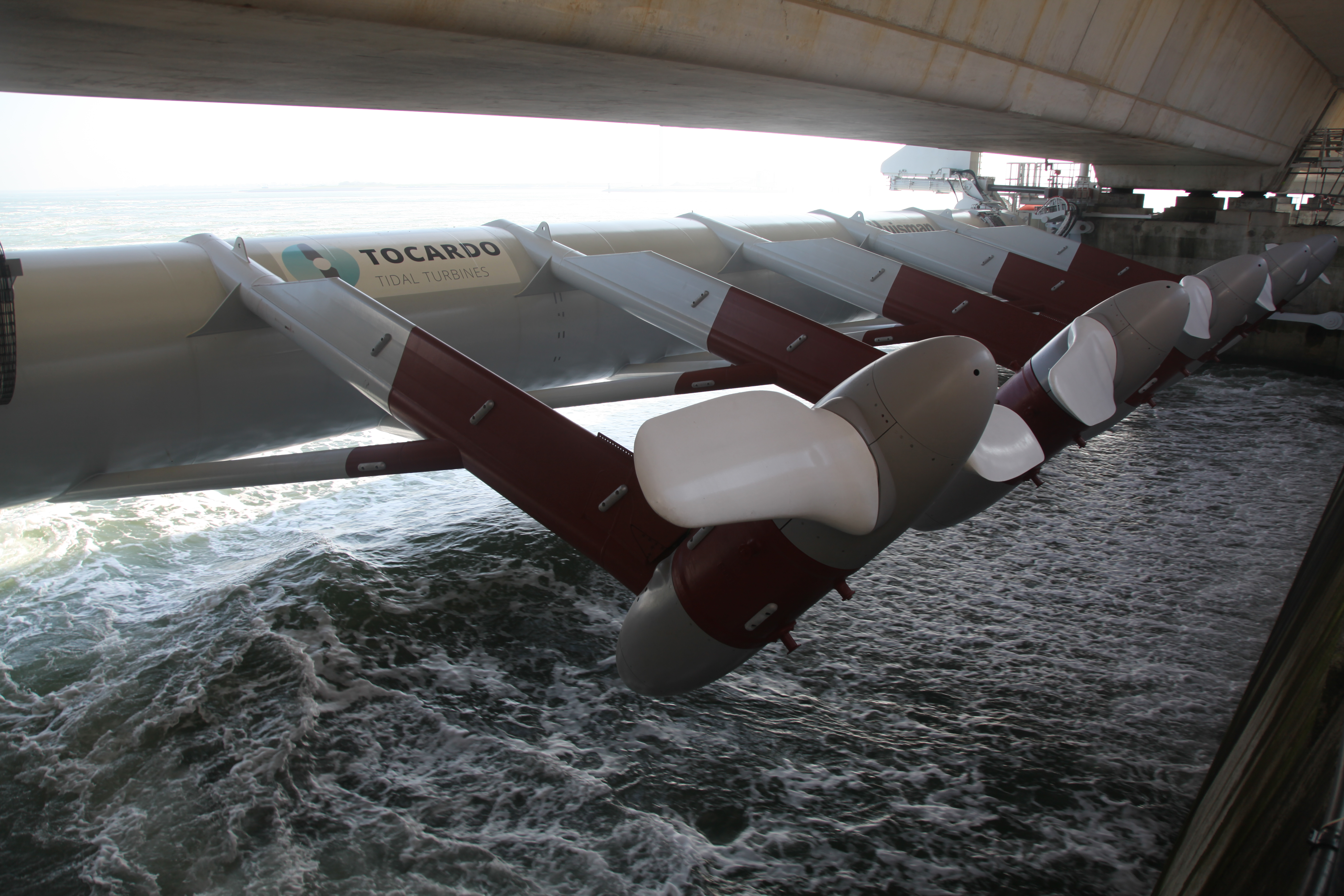 The Tidal Power Plant in the Eastern Scheldt storm surge barrier is the largest tidal energy project in the Netherlands as well as the world’s largest commercial tidal installation of five turbines in an array.